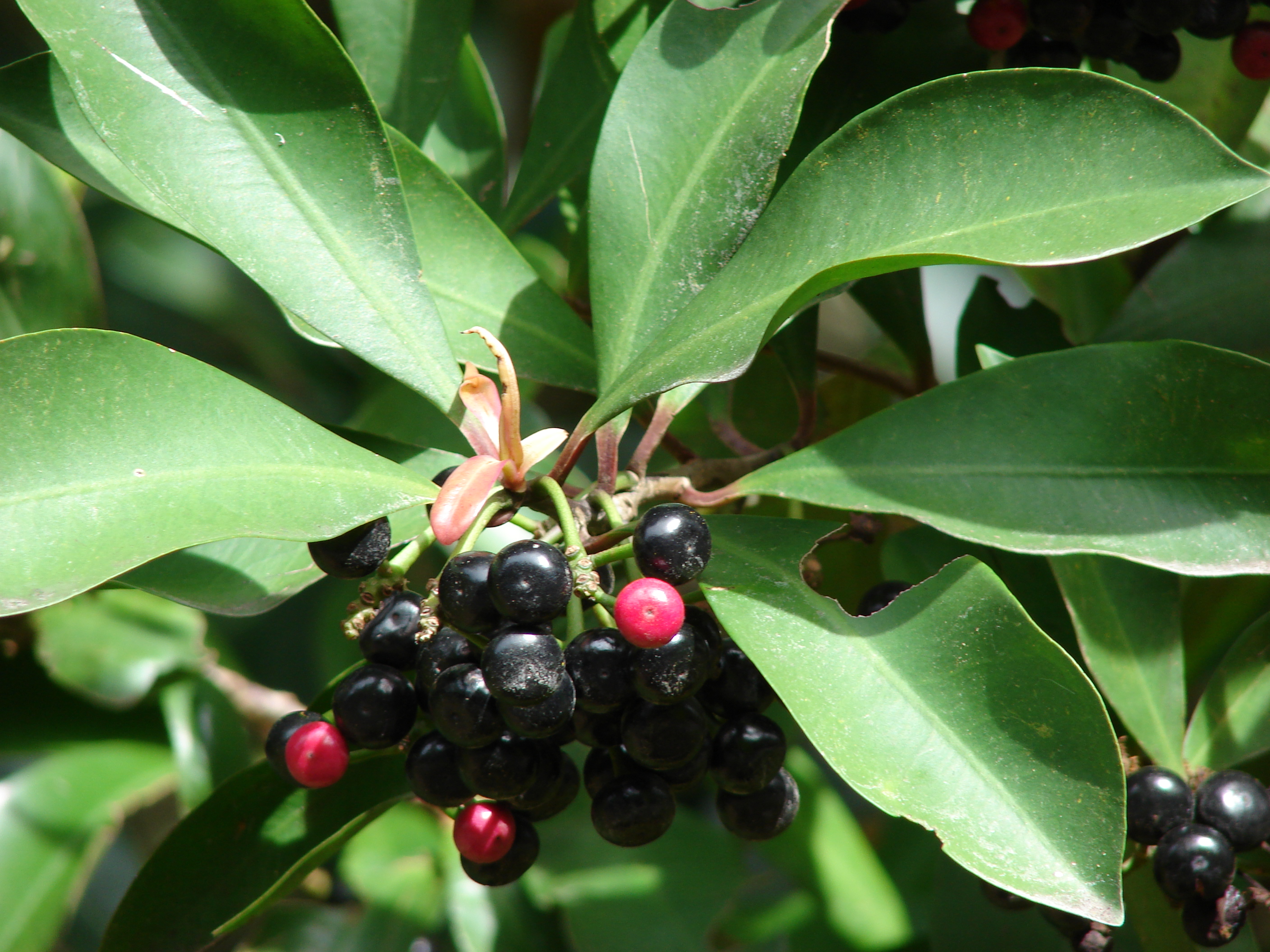 Ardisia elliptica (fruit). Location: Maui, Hana Hwy